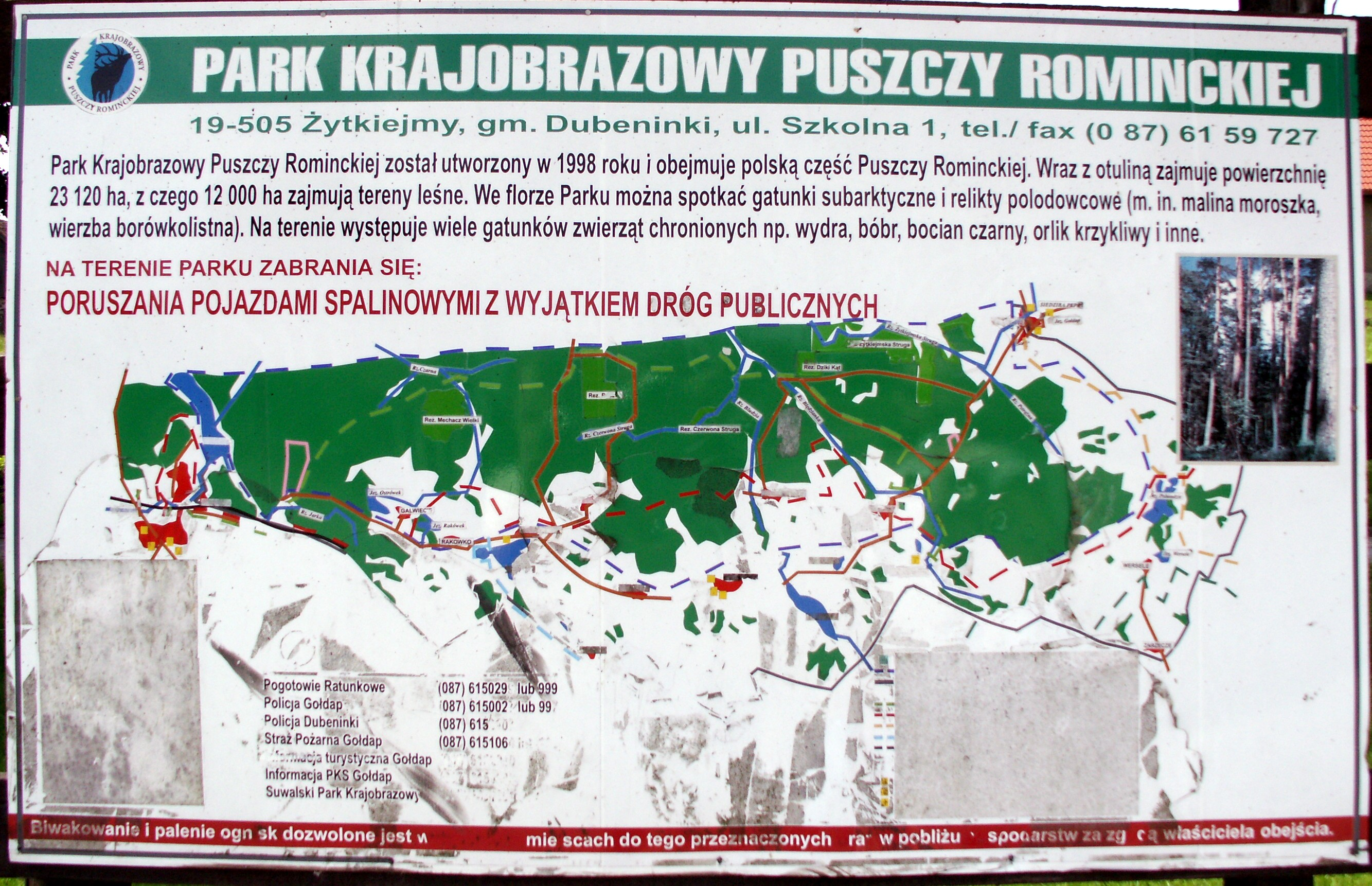 Romincka Forest plan